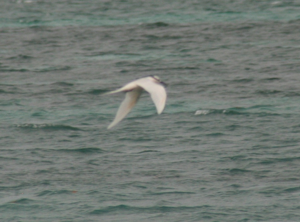 Black-naped tern, Sterna sumatrana Tonga